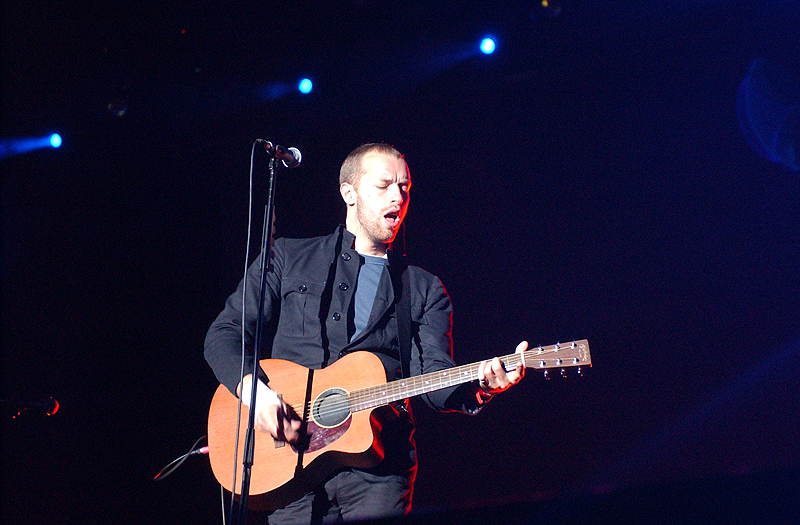 Chris Martin of Coldplay